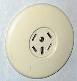 Swedish telephone socket of older design. Photographed and published under the GNU FDL by Storpilot.